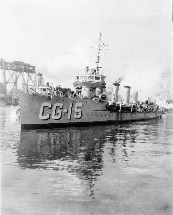 USS Monaghan (DD-32)